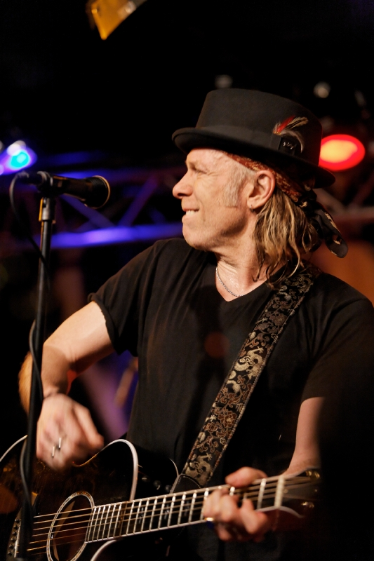 Elliott Murphy au New Morning